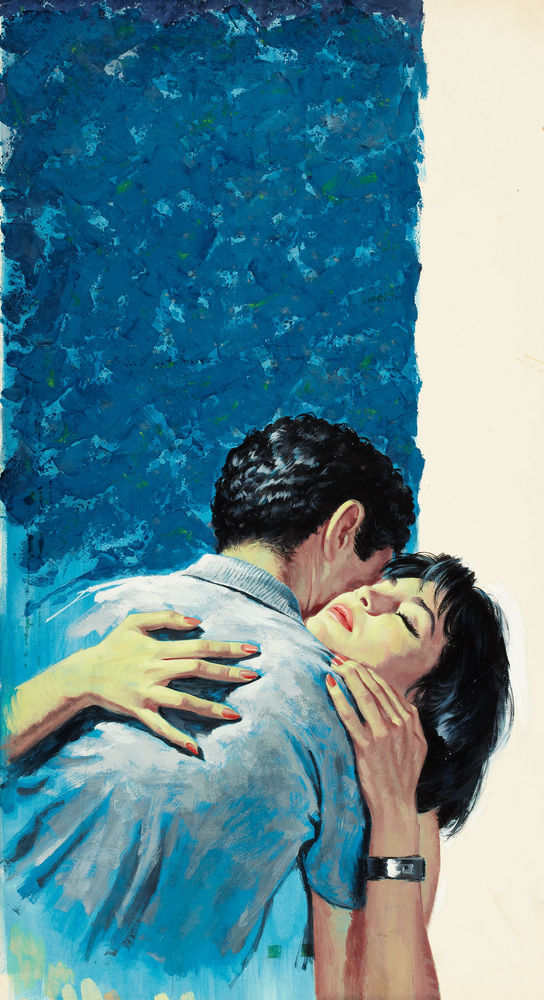 "Cracked in The Mirror" by Tom Miller, 1960. (Book by Marcel Haedrich - Translated by Phyllis Johnson - Published by Dell)